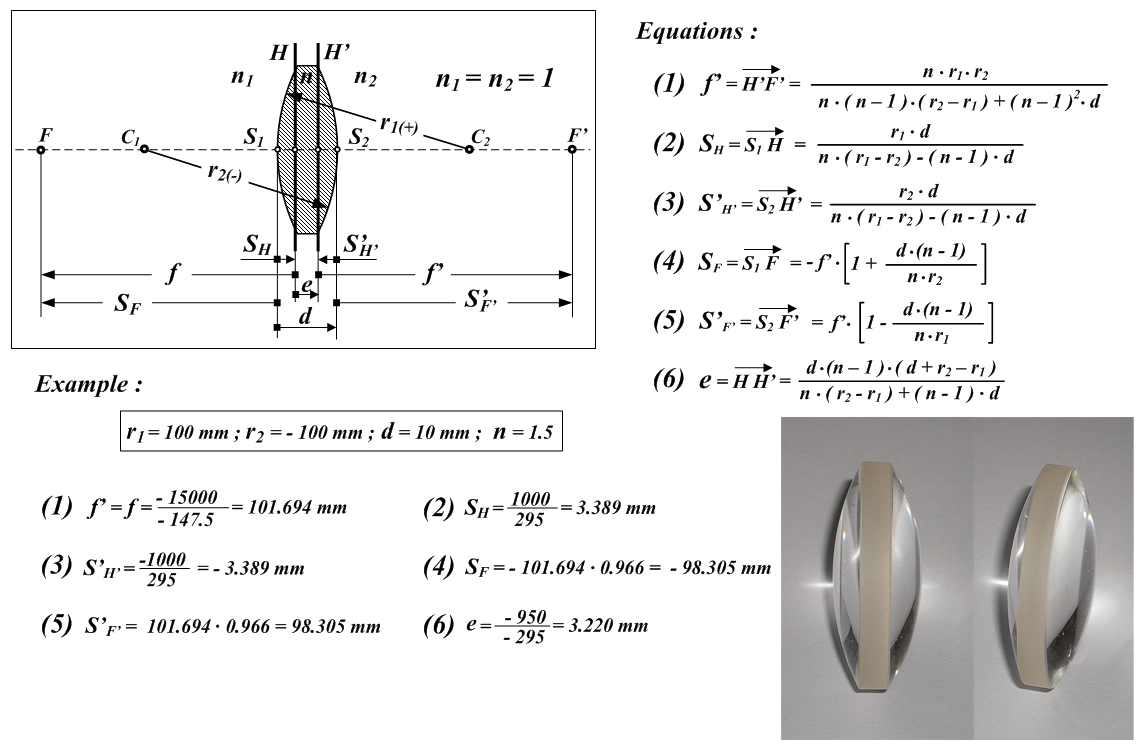 Thick lens equations.